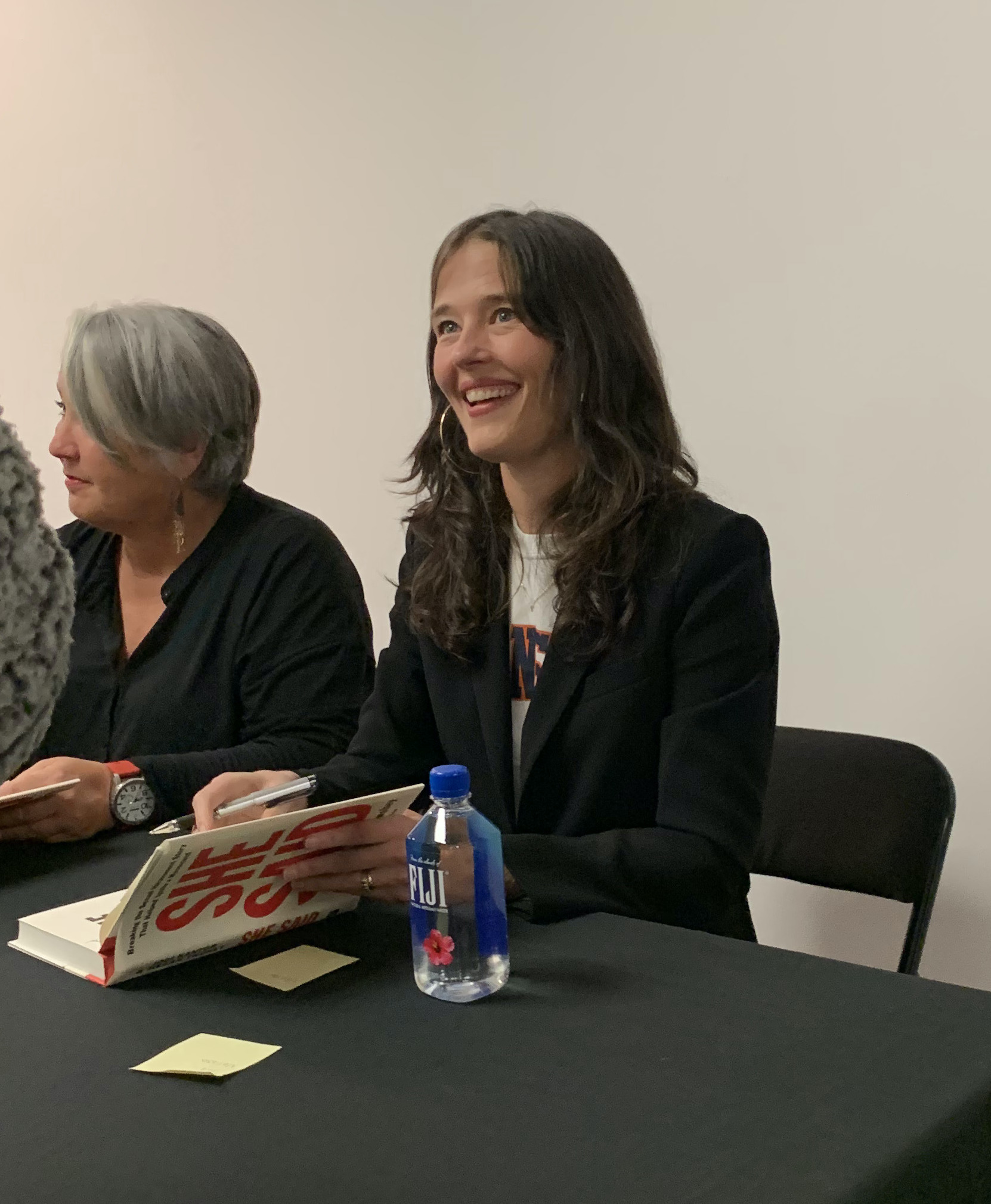 Pulitzer-prize winning journalist Megan Twohey is signing her book at Evanston Township High School.